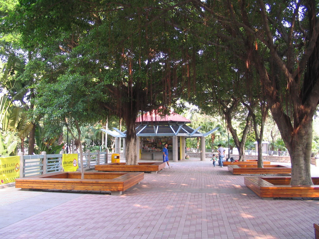 元朗公園-山頂廣場 Hill Top Plaza at Yuen Long Park